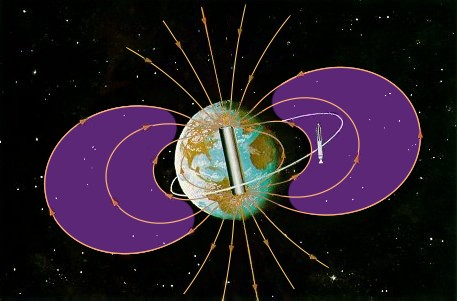 Van Allen radiation belts. The first American spacecraft, Explorer 1 (shown here), discovered a belt of energetic particles trapped in thefield and streaming back and forth above the Earth. It was the first of two such zones, the Van Allen belts, to be found.